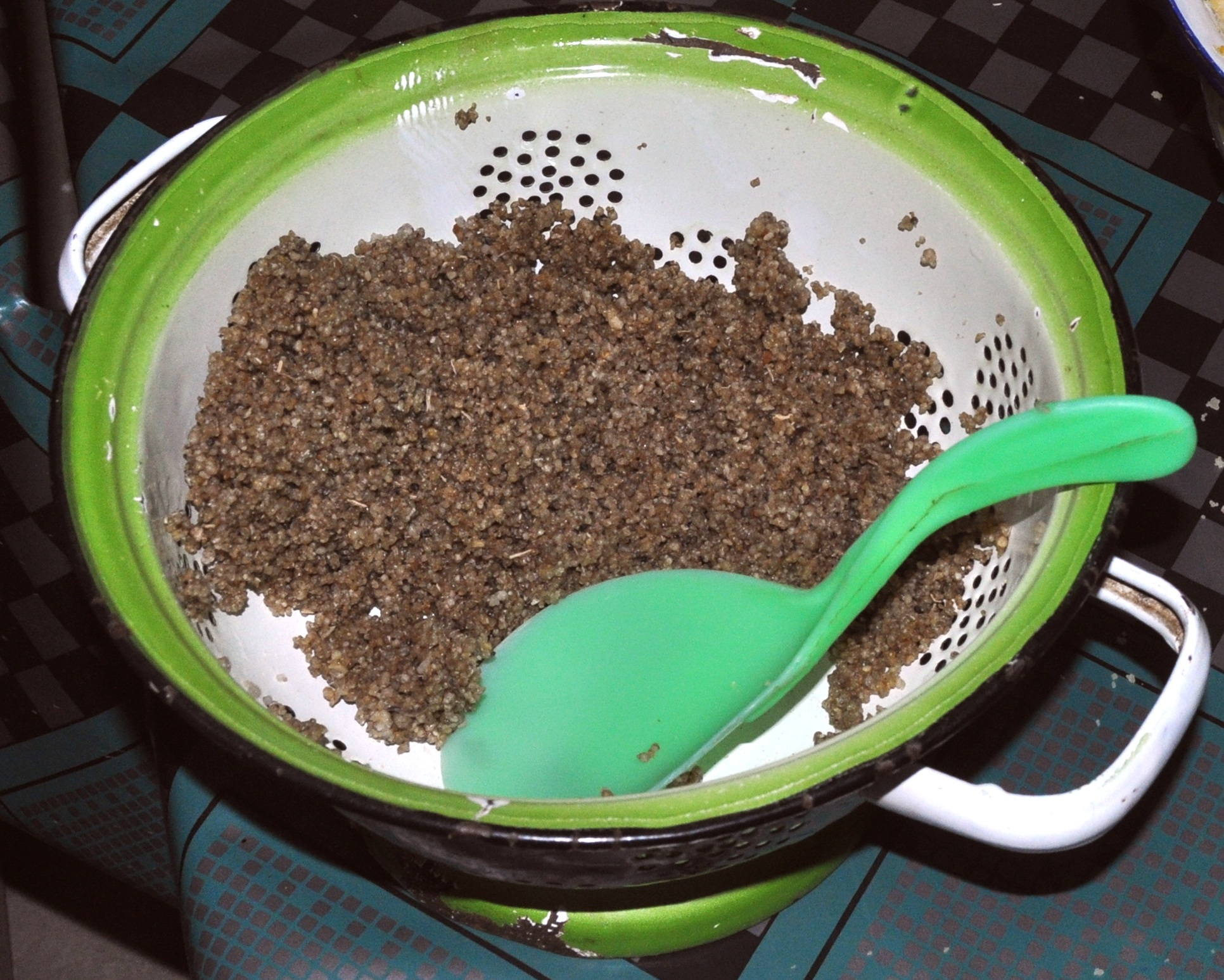 Nasi tiwul (=boiled 'rice' from dried cassava). Blitar, East Java , Indonesia.